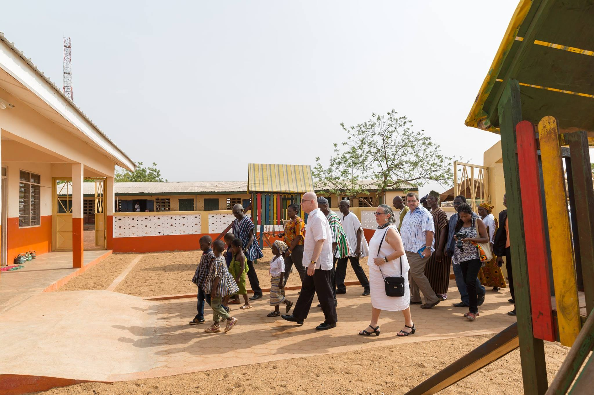 Visit of the U.S. Ambassador in the Northern Region, 31st March 2016 - 02nd April 2016 At Nyankpala, Ambassador Jackson visited a kindergarten block, one of many constructed by USAID to support education in Ghana.